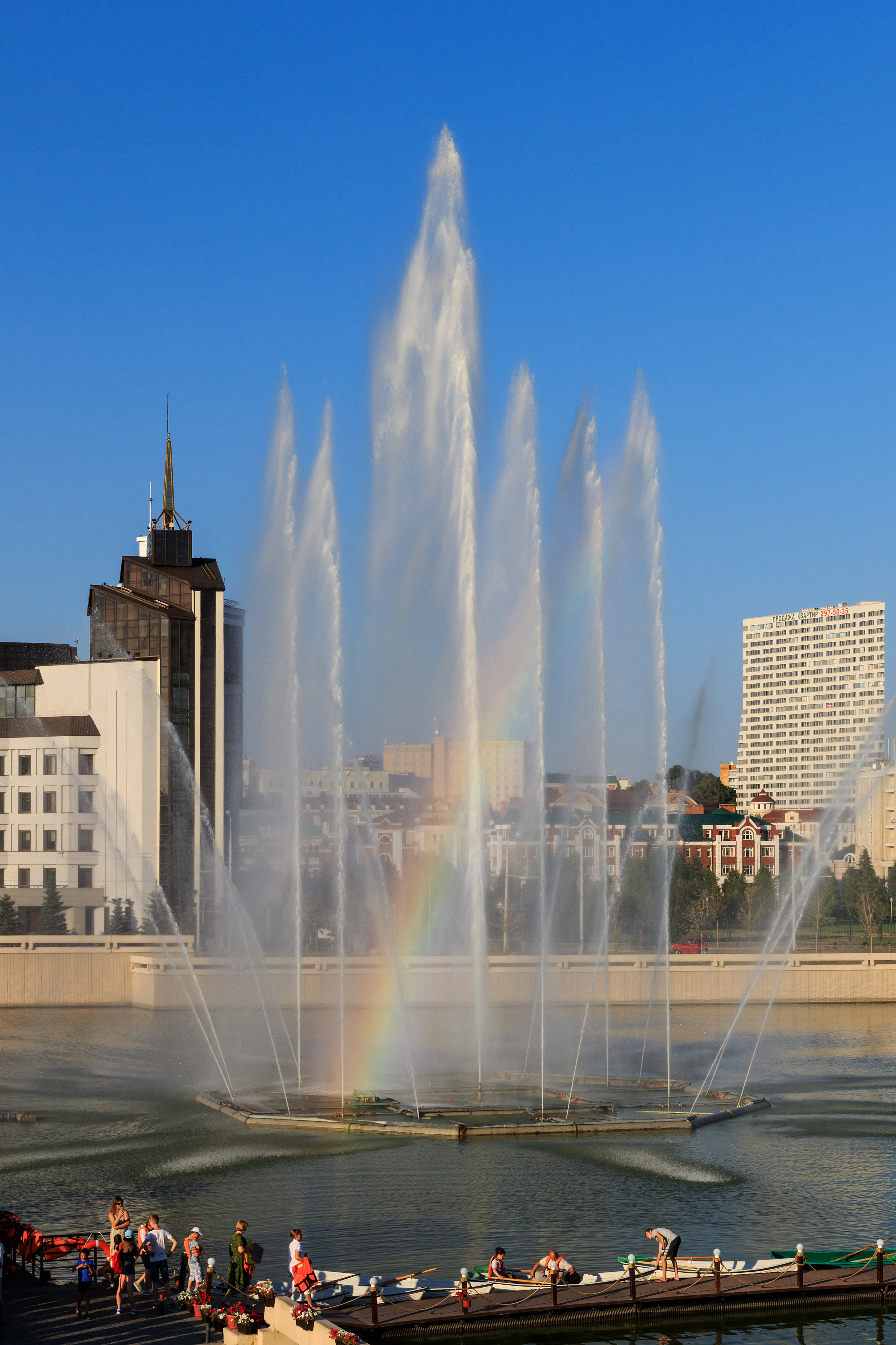 Fountain on the Lower Qaban Lake in Kazan, Russia